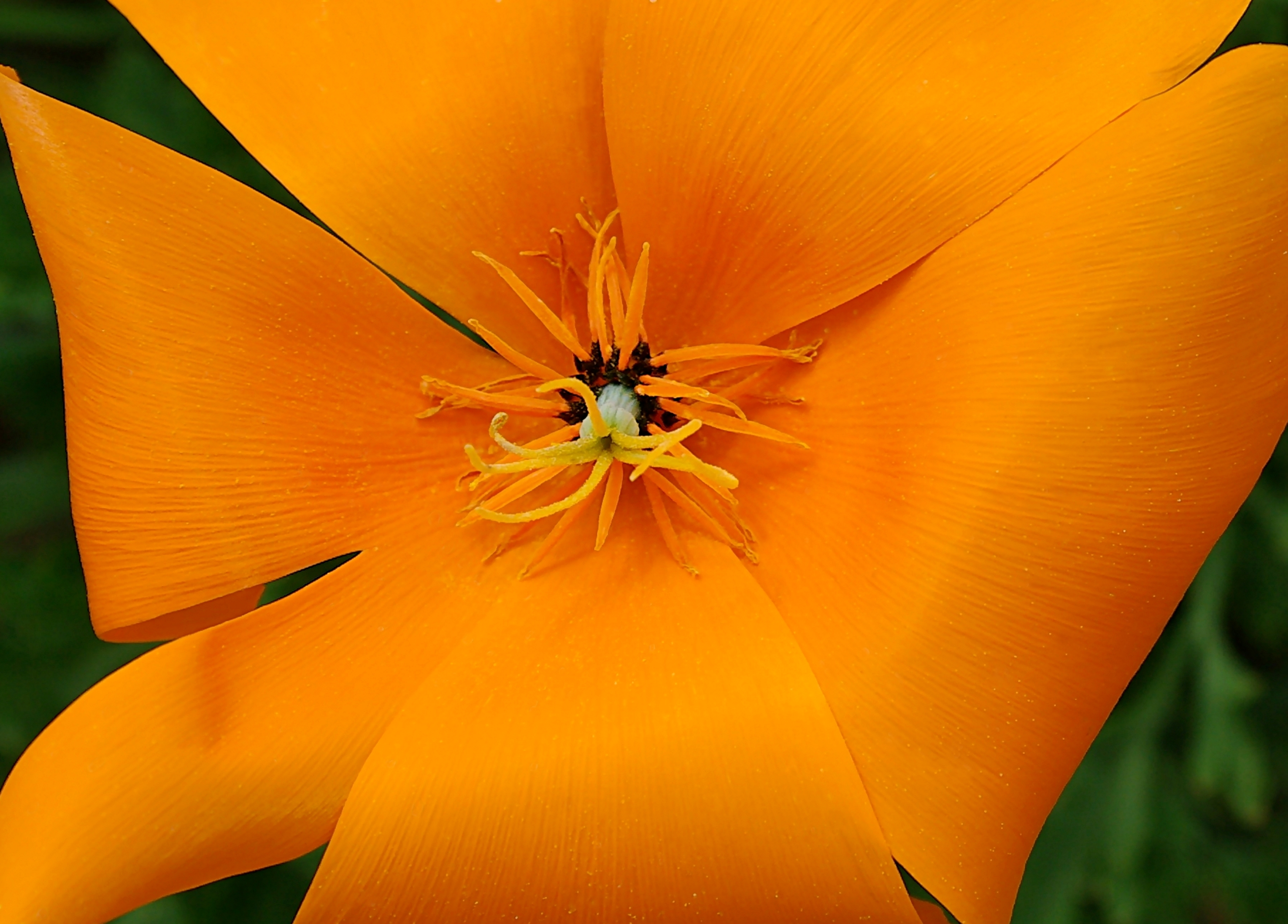 California poppy (Eschscholzia californica), detail, in a garden, France.